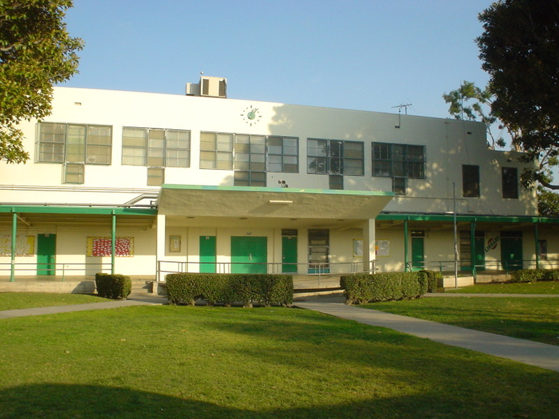 View of the main office of Susan Miller Dorsey High School, from the "center circle" on campus. In the Baldwin Village neighborhood of the Crenshaw District, in South Los Angeles